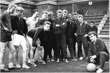 Photograph of the Finnish football player Anders Westerholm (1936–2004) with HIFK team in Otaniemi hall.